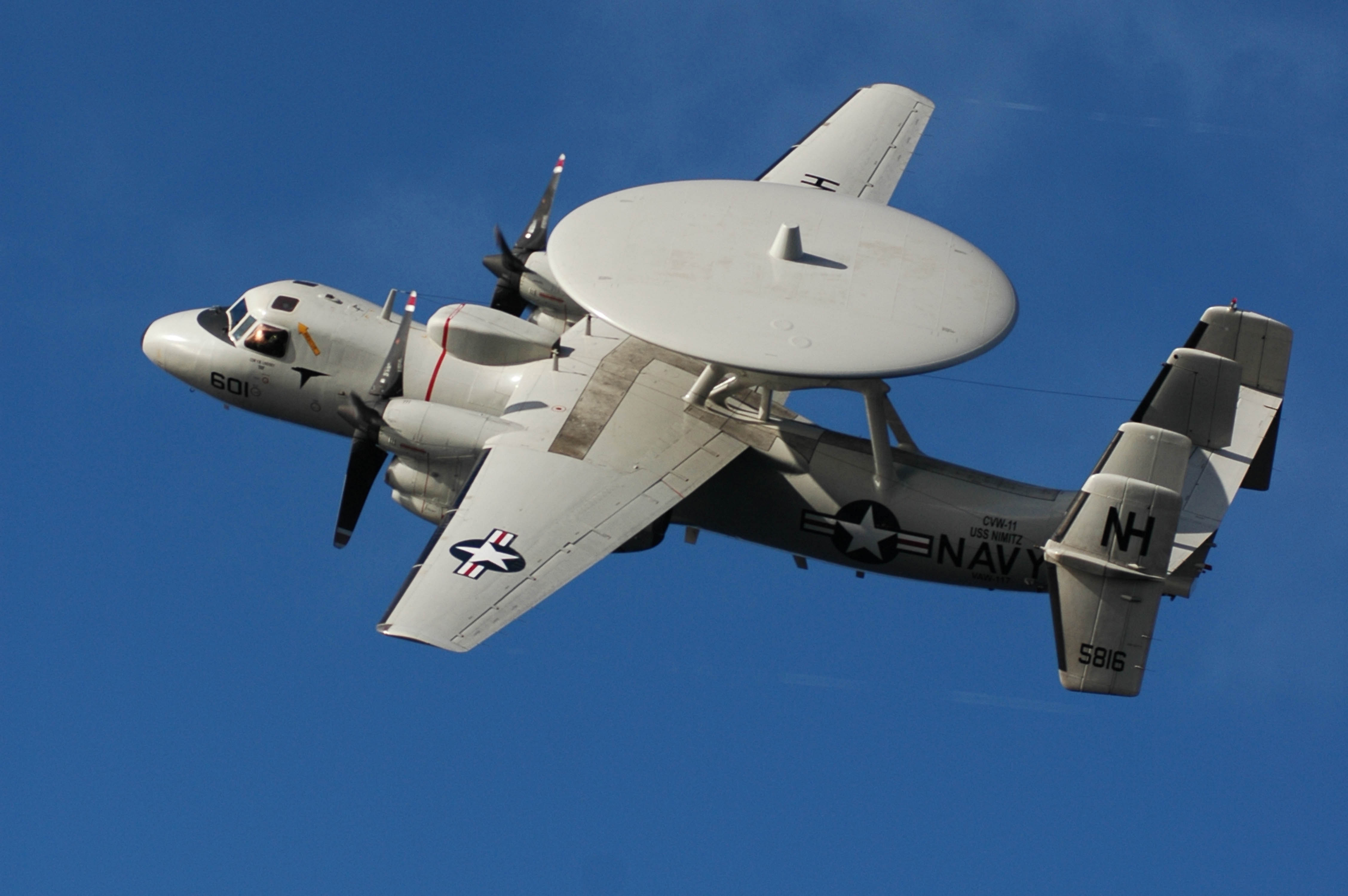 Pacific Ocean (Nov. 4, 2005) - An E-2C Hawkeye, assigned to the “Wallbangers” of Carrier Airborne Early Warning Squadron One One Seven (VAW-117), conducts a fly over during an airpower demonstration aboard the nuclear-powered aircraft carrier USS Nimitz (CVN 68). The Nimitz Carrier Strike Group is currently conducting a “Tiger Cruise” and is returning from a regularly scheduled deployment in support of the Global War on Terrorism. U.S. Navy photo by Photographer’s Mate Airman Roland Franklin (RELEASED)